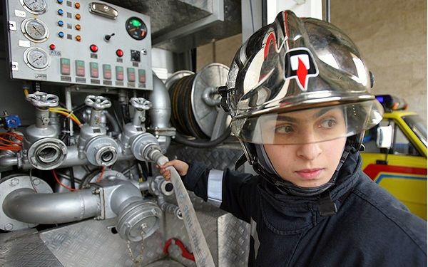 Karaj Fire Department, Opening of fire station for women - 4 November 2006